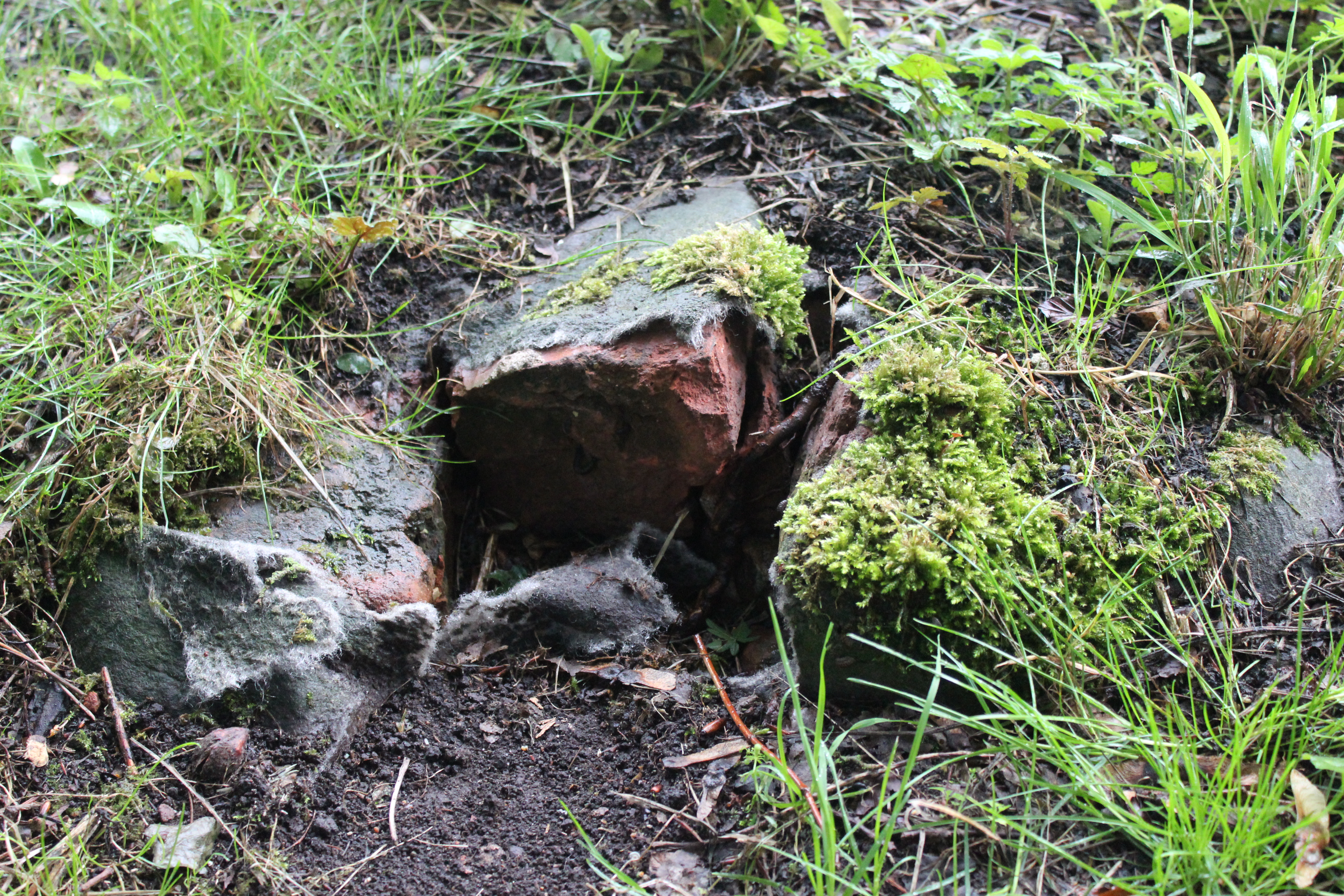 Remains from the curtain wall of the castle.